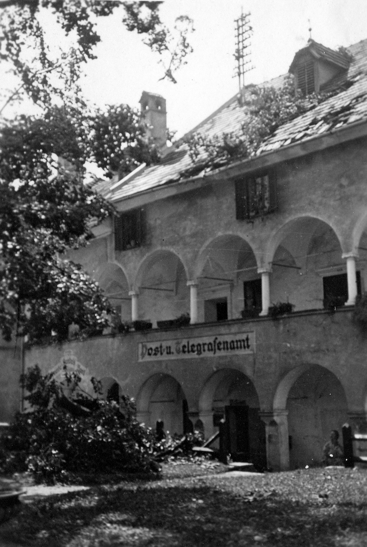 Inner courtyard in the monestry of Millstatt district Spittal an der Drau in Carinthia / Austria / EU after a summer storm to the year 1933. In this Trackt was then the post and telegraph office accommodation. The storm has ripped some of the branches of the old lime tree.